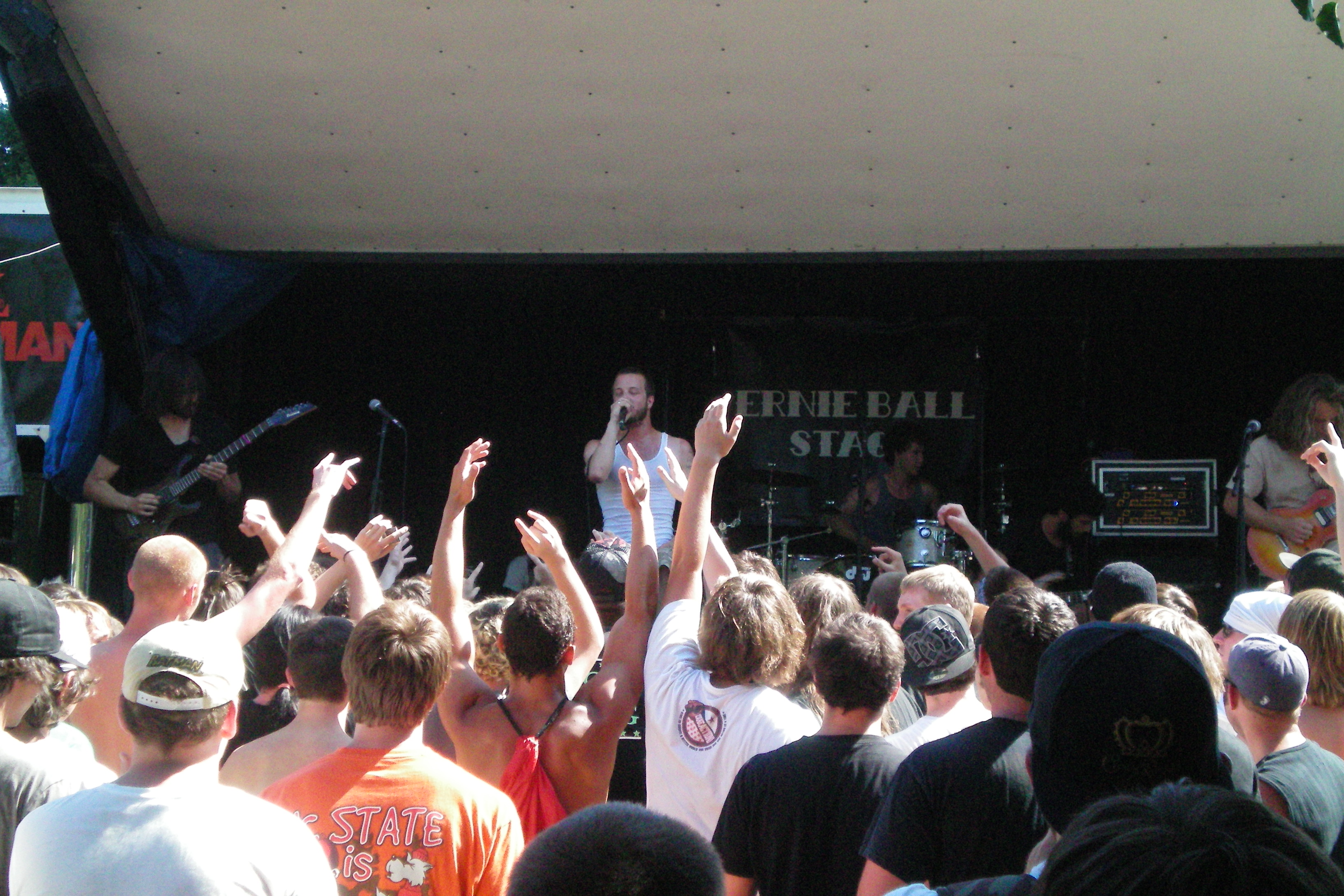 Protest the Hero live in 2008.